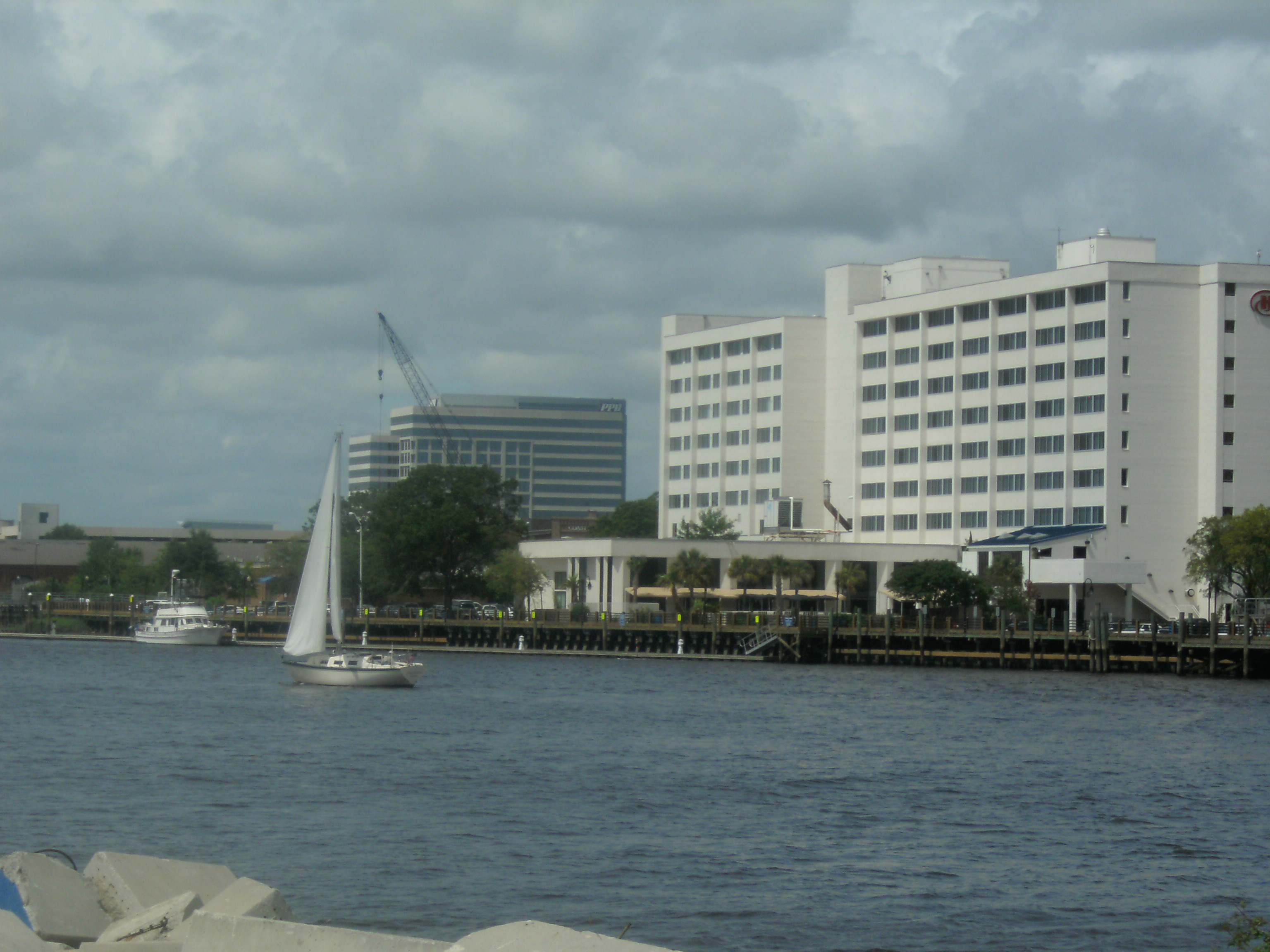 Northern end of Downtown Wilmington